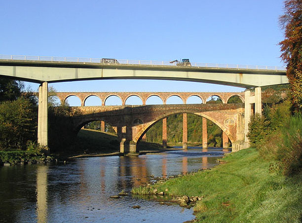 Three bridges over the River Tweed at Leaderfoot Traffic is crossing Drygrange Bridge (1971-73), a composite structure of reinforced concrete and steel box girders. The bridge behind is Drygrange Old Bridge (1778-80), a three-arched stone bridge now closed to vehicular traffic, and the bridge beyond is Drygrange Viaduct (1863-65). Built for the Berwickshire Railway, it has nineteen slender piers of rustic-faced sandstone, the tallest being 37m above the River Tweed. The railway line was closed in 1948 but the bridge is in the care of Historic Scotland. (Source: Borders and Berwick, An Architectural Guide by Charles Alexander Strang).